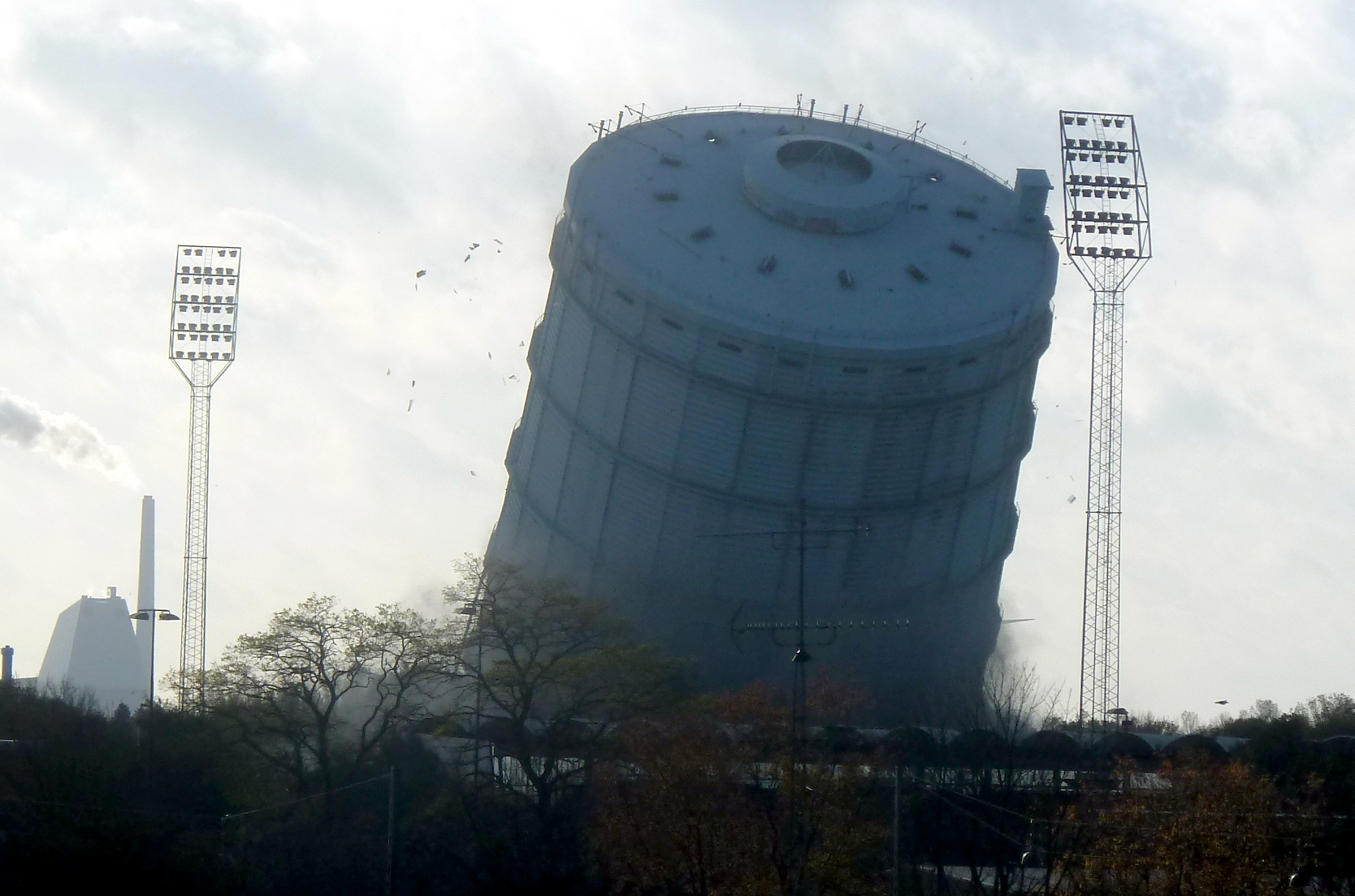 Demolition of the gasometer Køgevejens Gasbeholder seen from Ny Ellebjerg Station in Copenhagen.